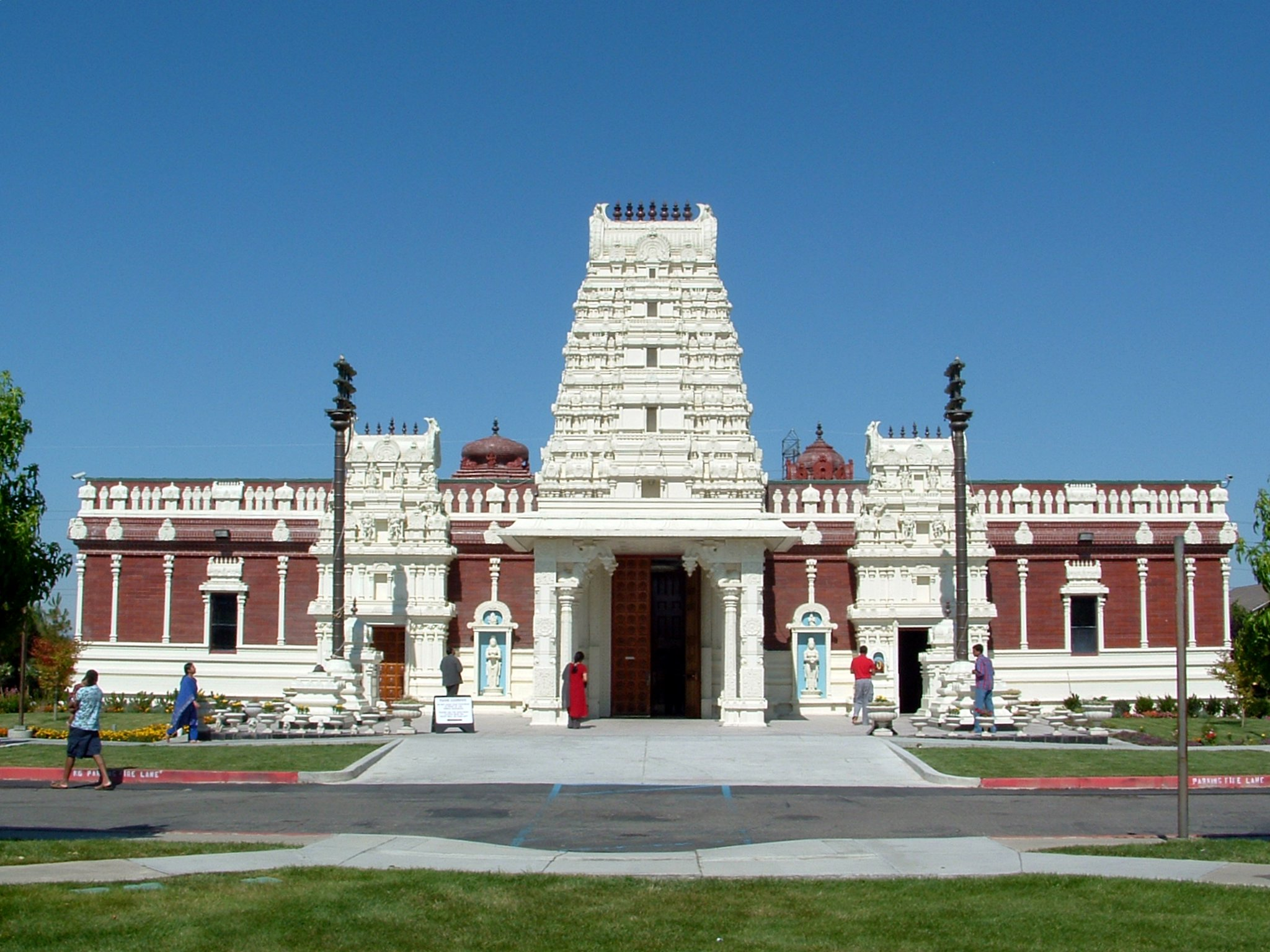 The Hindu temple at Livermore, California